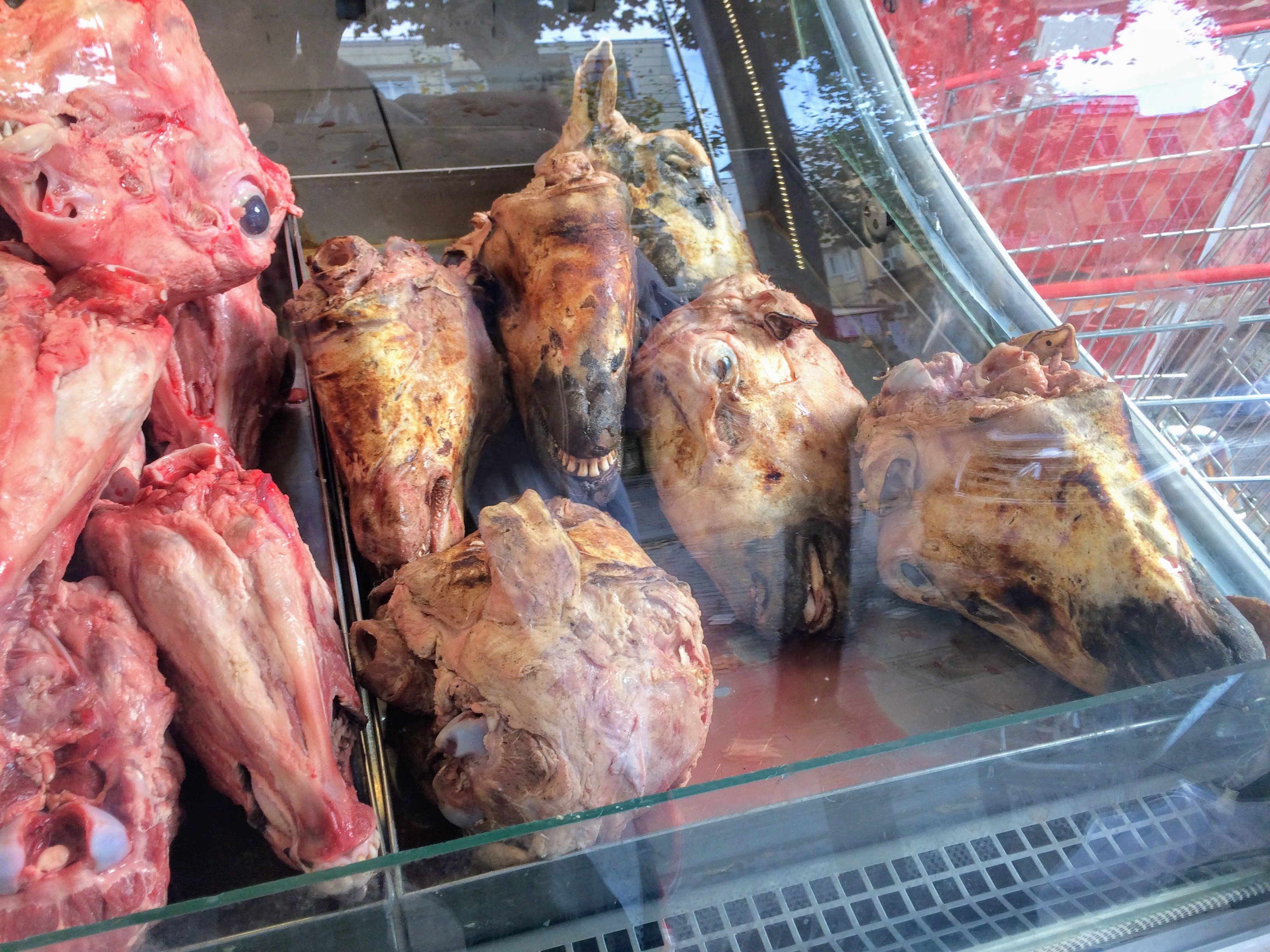 Sheep head - Smalahove - kalleh pacheh